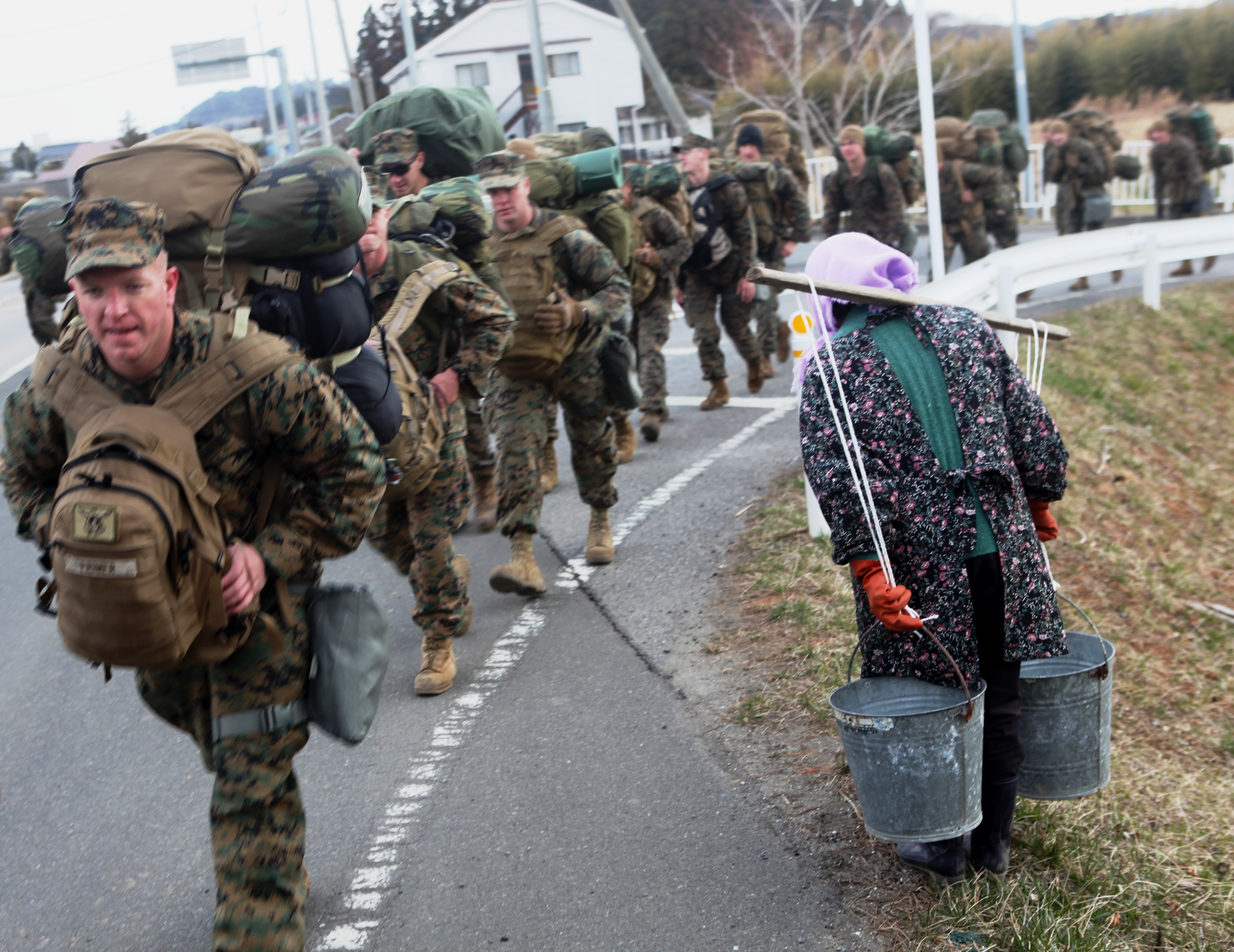 A local woman carrying water bows in thanks to Marines with the command element, 31st Marine Expeditionary Unit, who are on the way to assist with Operation Field Day here. The operation is a debris-clearing and cleanup project designed to open harbor access and area roads on the isolated island. The 31st MEU is participating in Operation Tomodachi at the request of the Japanese government after the 9.0 earthquake and tsunami devastated the northeast coast of Japan. (U.S. Marine Corps photo by Capt. Caleb Eames/Released)